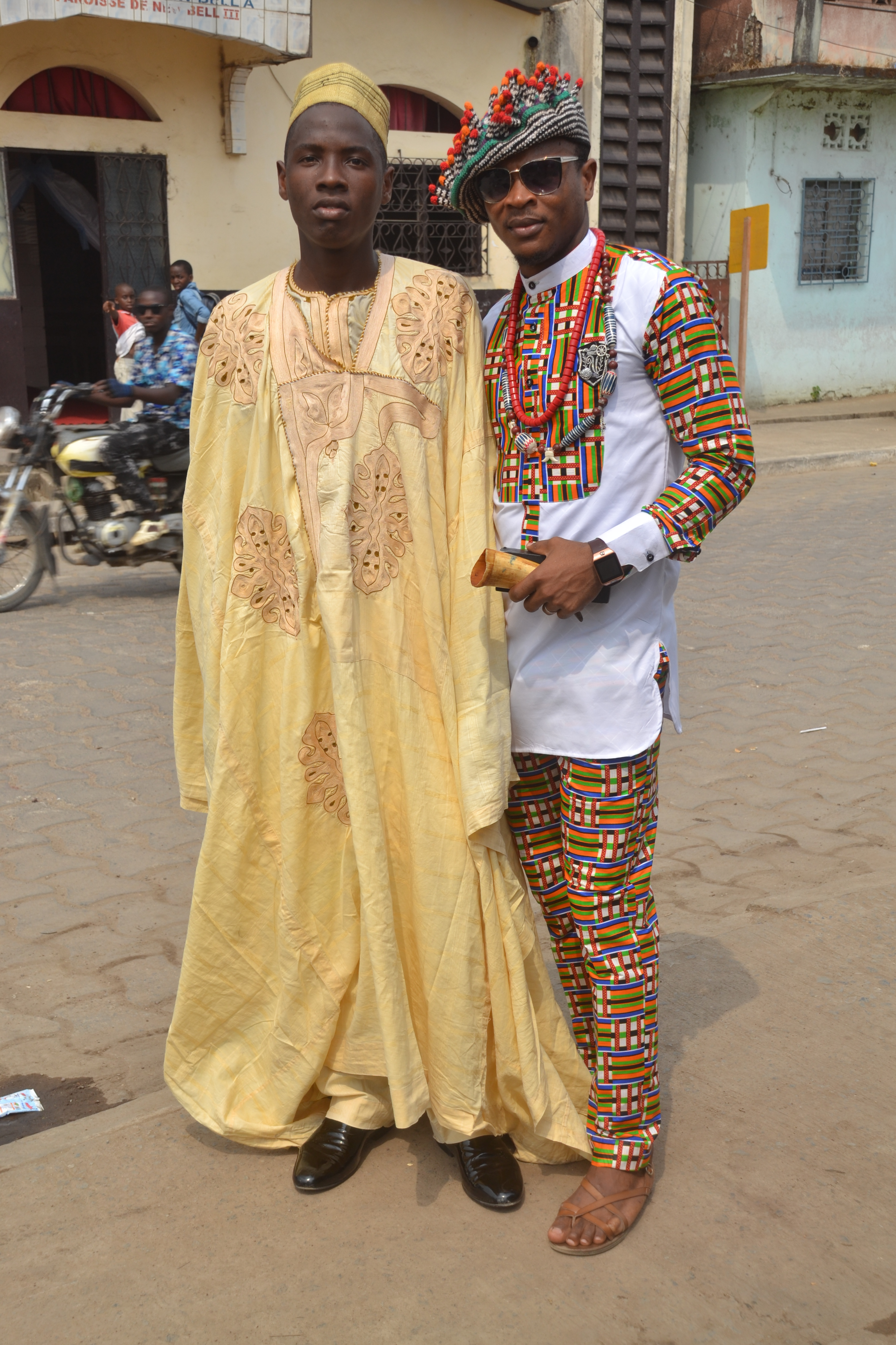 Cameroonians in traditional dress This is an image with the theme "Play" from: Cameroon